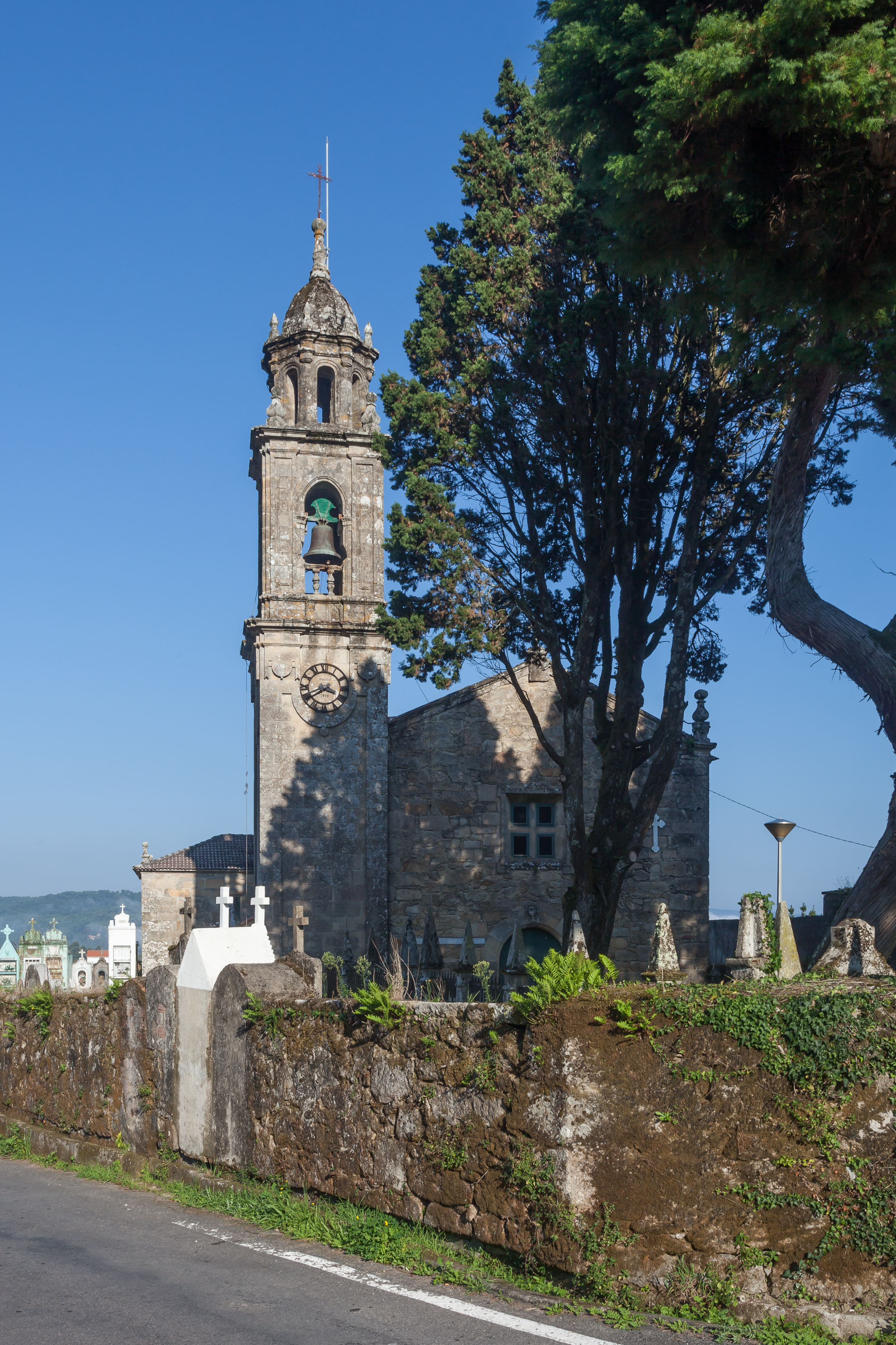 Church of O Freixo de Sabardes. Outes. Galicia (Spain).